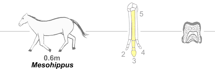 Mesohippus drawing (derived from Image:Horseevolution.png a GFDL wikimedia image) Legend for molar tooth (right) - legenda per il molare (a destra): (en): dark=enamel; dotted=dentine; white=cement (it): scuro=smalto; punteggiato=dentina; bianco=cemento